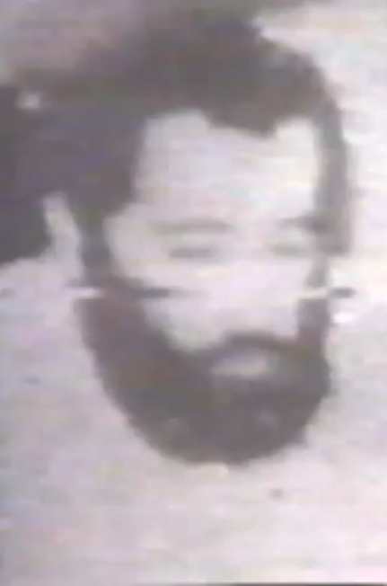 leader of the Algerian Islamic Armed Movement (MIAA), a guerrilla group based around Larbaa south of Algiers, from 1982 to 1987, when he was killed by the government forces in Ouad Roman, near Algiers